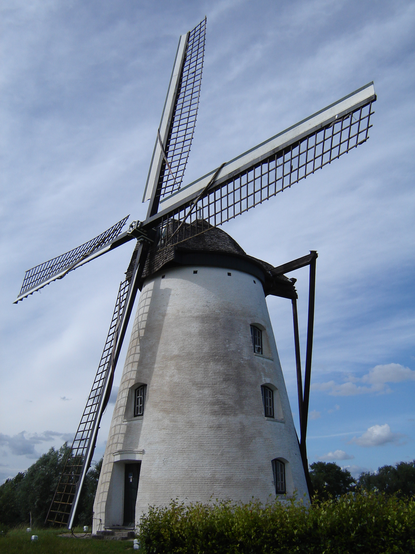 Verrebeekmolen windmill in Opbrakel. Opbrakel, Brakel, East Flanders, Belgium